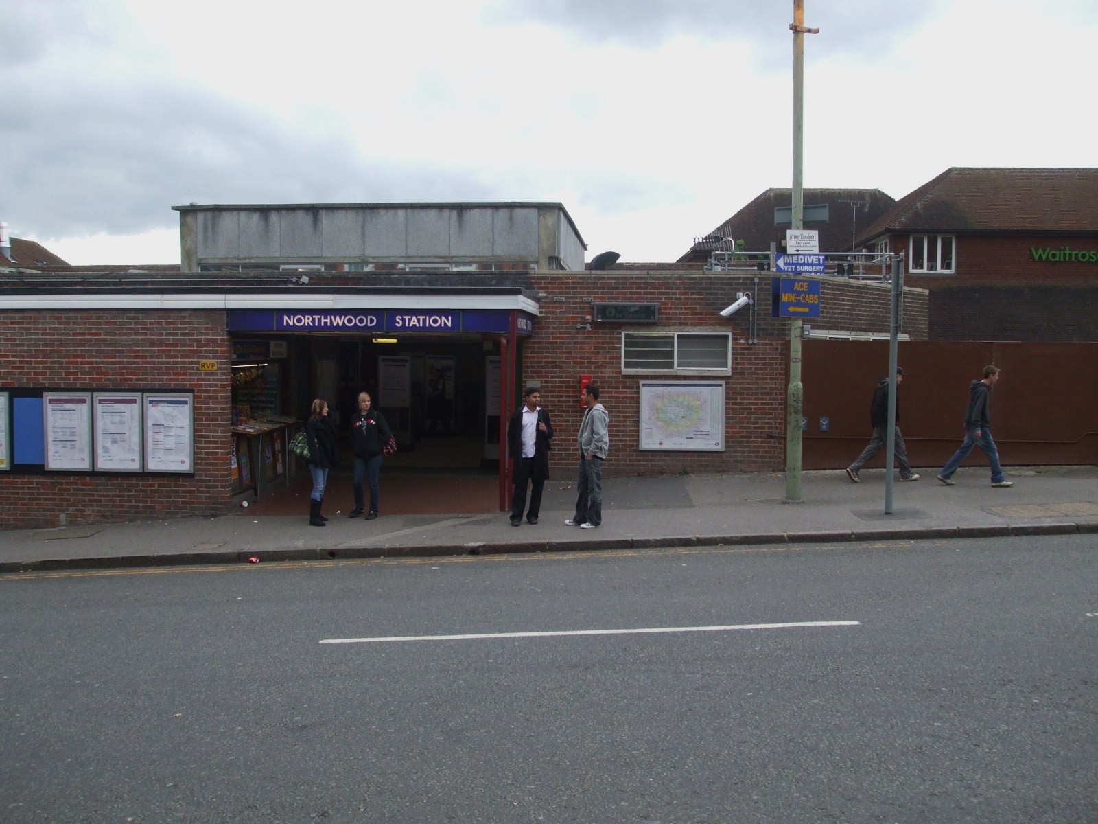 Northwood tube station